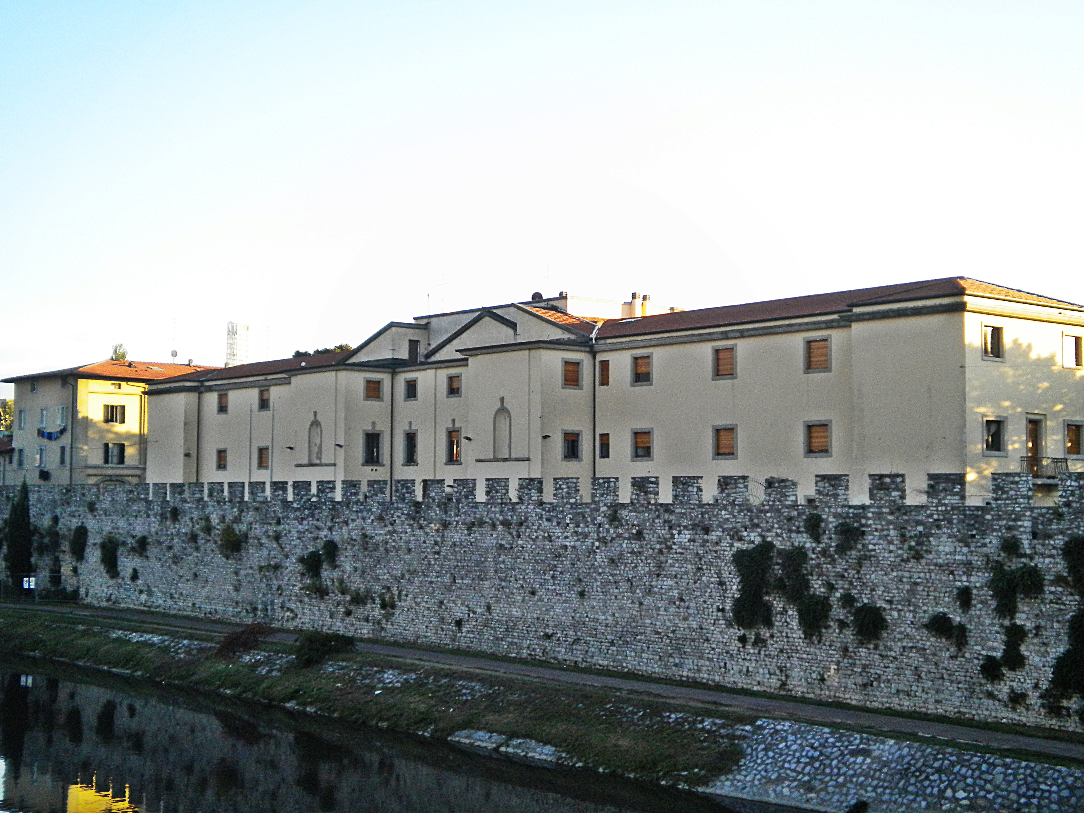 from bisenzio river